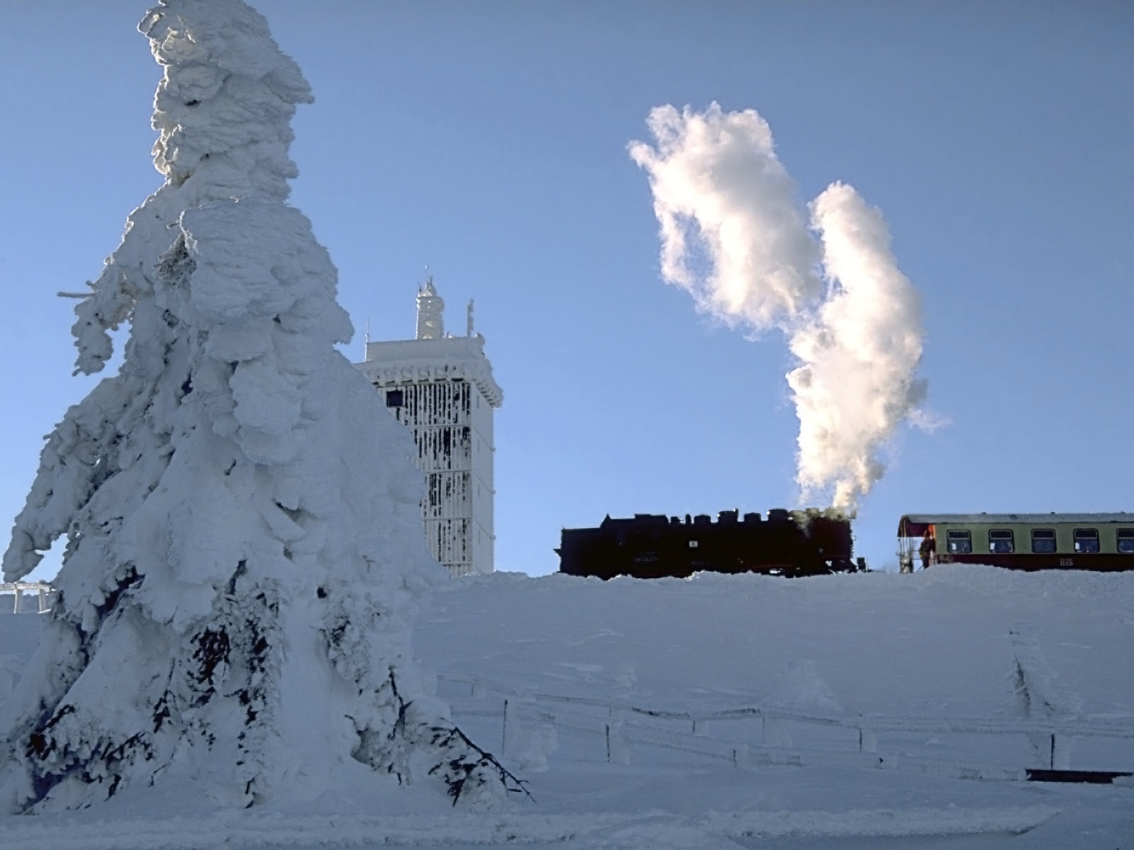 Brocken Mountain (or Brockenbahn) in Winter.